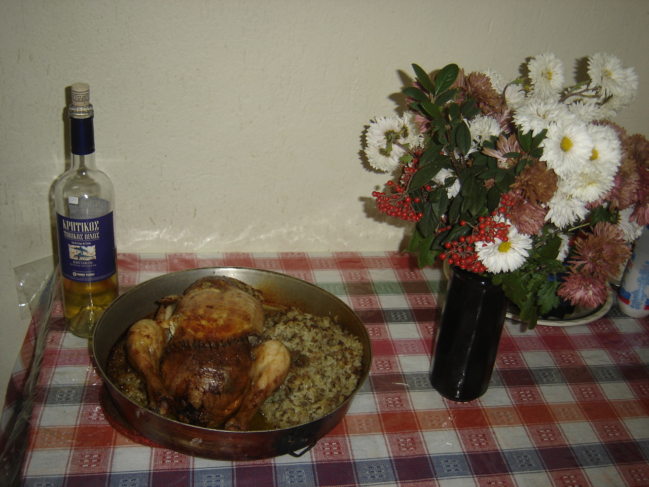 Roasted chicken and Cretan wine for the Christmas lunch in Greece.